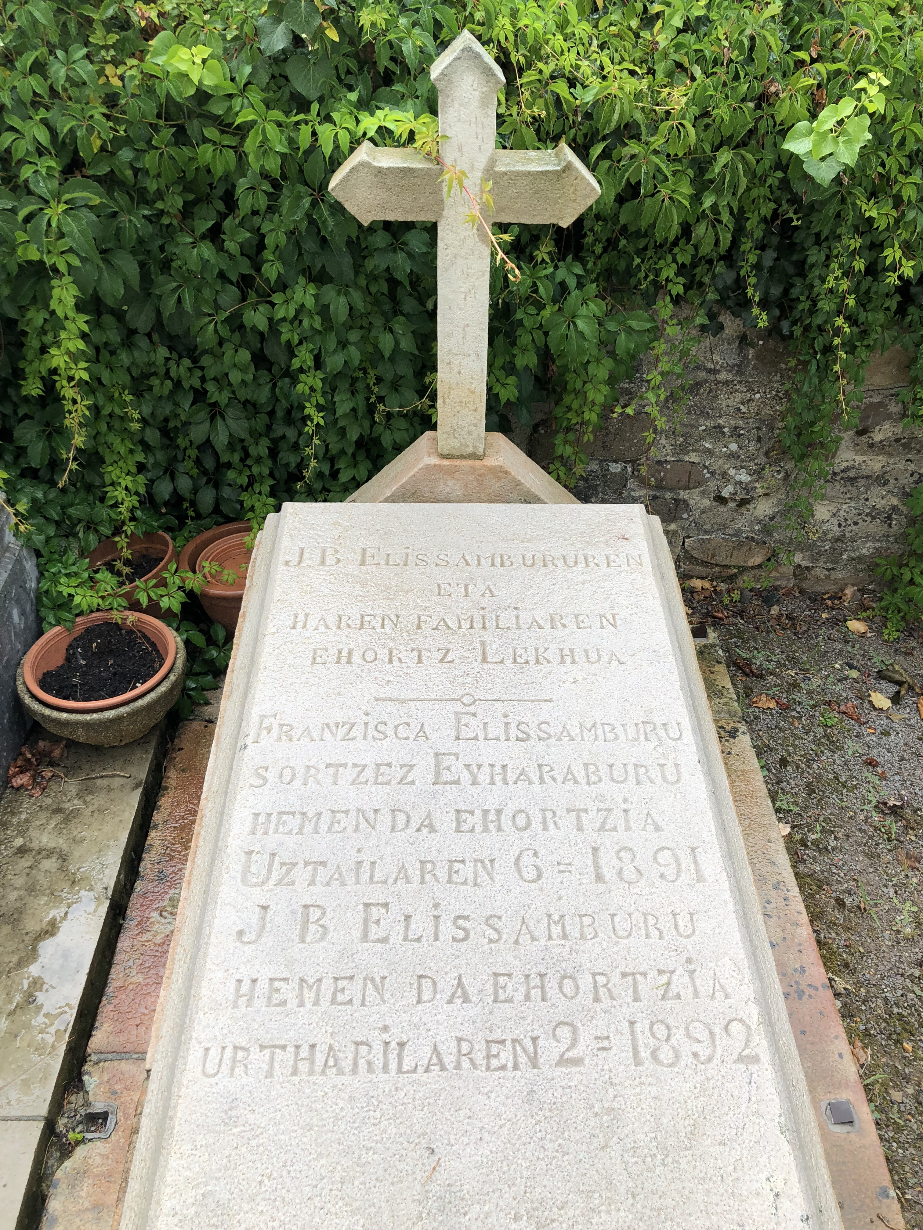 Tumbstone of Elizanburu in Sara cemetery